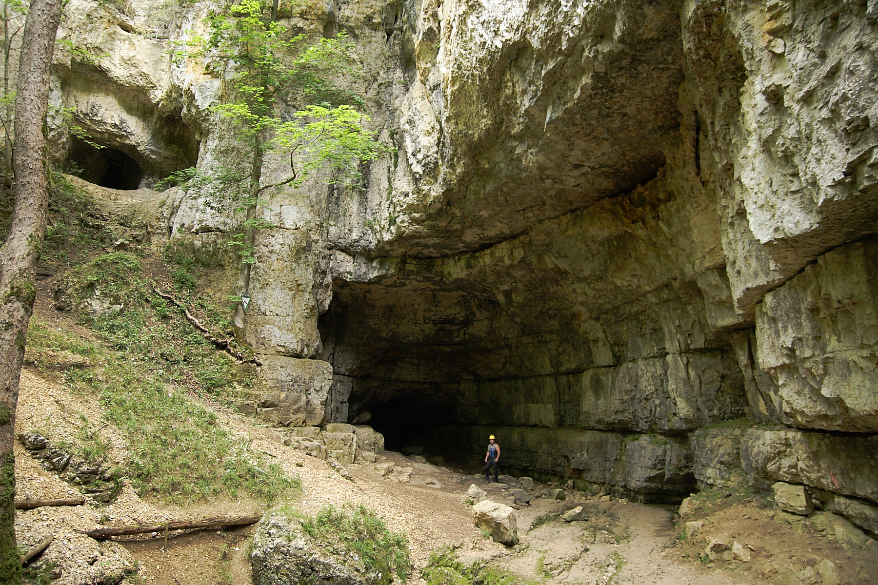 Falkensteiner Höhle, 4 km NE of Bad Urach, Swabian Alb. Its portal of 10 m height documents its former relevance as a huge water cave. Today water emerges from the portal episodically only with extreme precipitation. A tiny runnel sinks down a Ponor within the cave, 20m from the cave’s entrance and exits as brook “Elsach” not far below the portal.